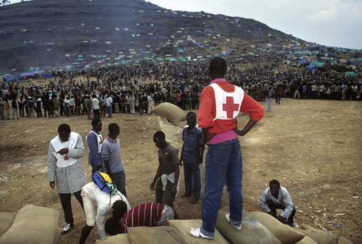 Goma Democrati Republic of Congo - International humanitarian workers distributing food. Kibumba refugee camp, this camp contained over 250,000 people. The Rwandan refugee crisis put severe pressure on the park. Nearly 1 million refugees were camped in the area around Goma and surrounding the park.